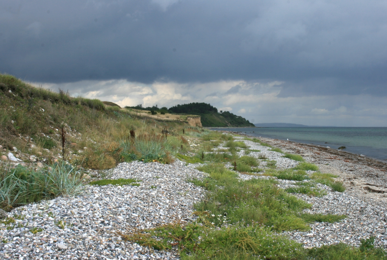 Erosion on the coast of the Kattegat near Elsegårde, Denmark.